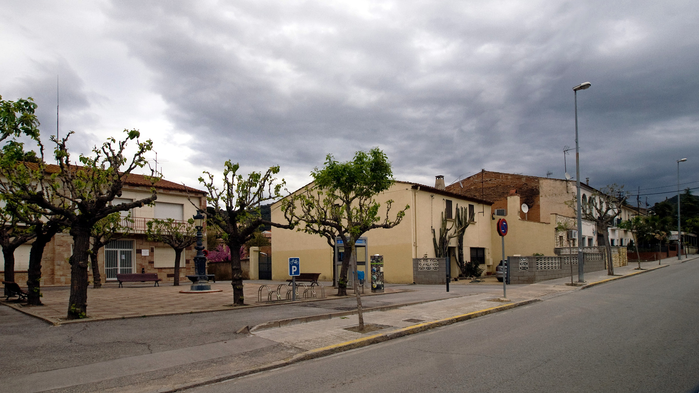 city council square of Martorelles